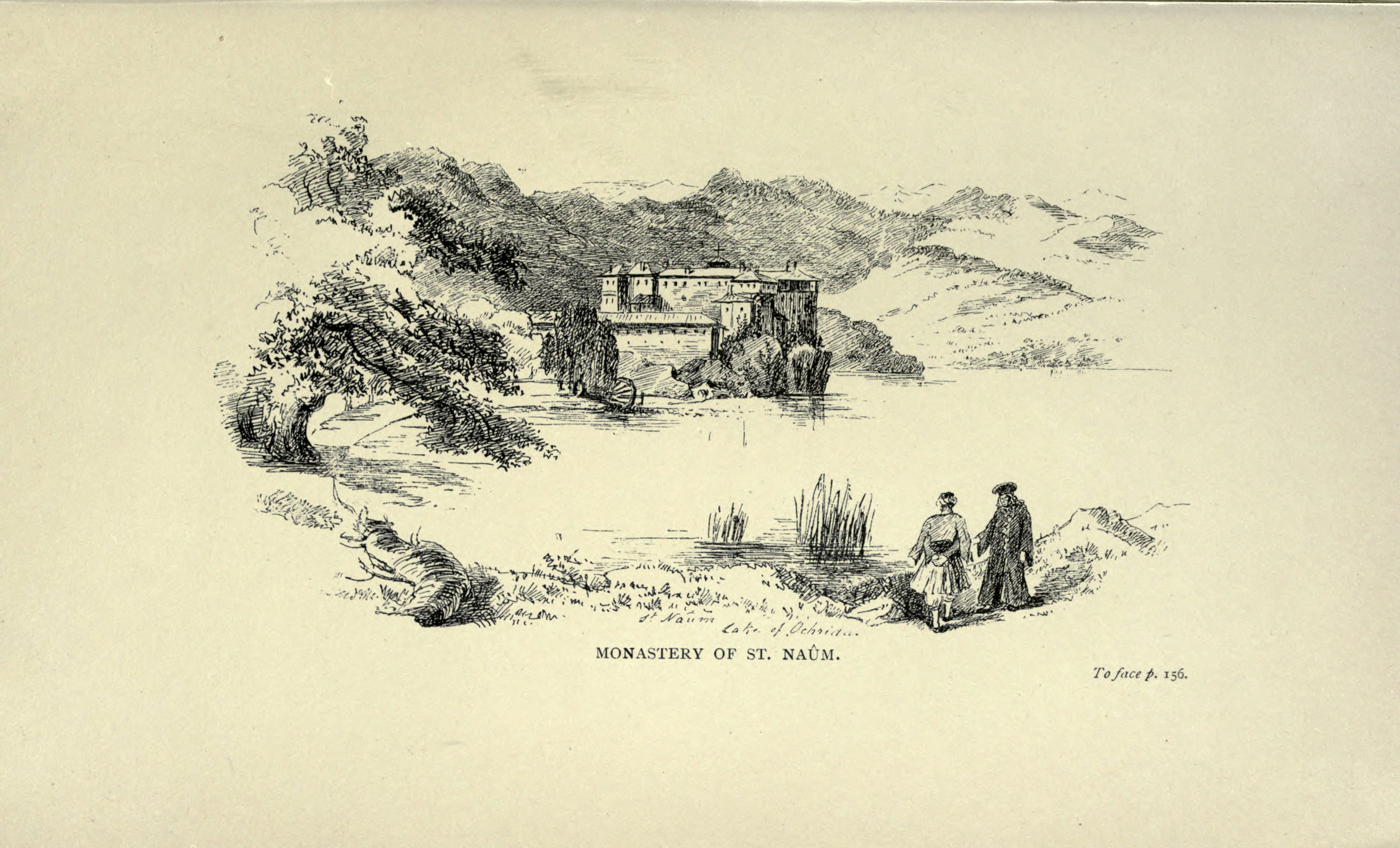 Monastery of St. Naum by Mary Adelaide Walker